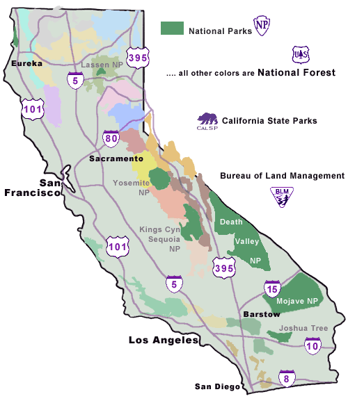 Dispersed camping locations across California